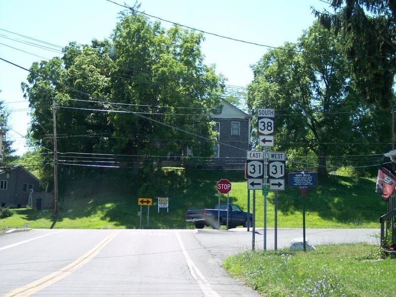 Approaching New York State Route 31 on New York State Route 38 just south of the New York State Thruway in Port Byron, New York.